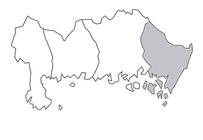 Map describing the location of Eastern Hundred in Blekinge county, Sweden.